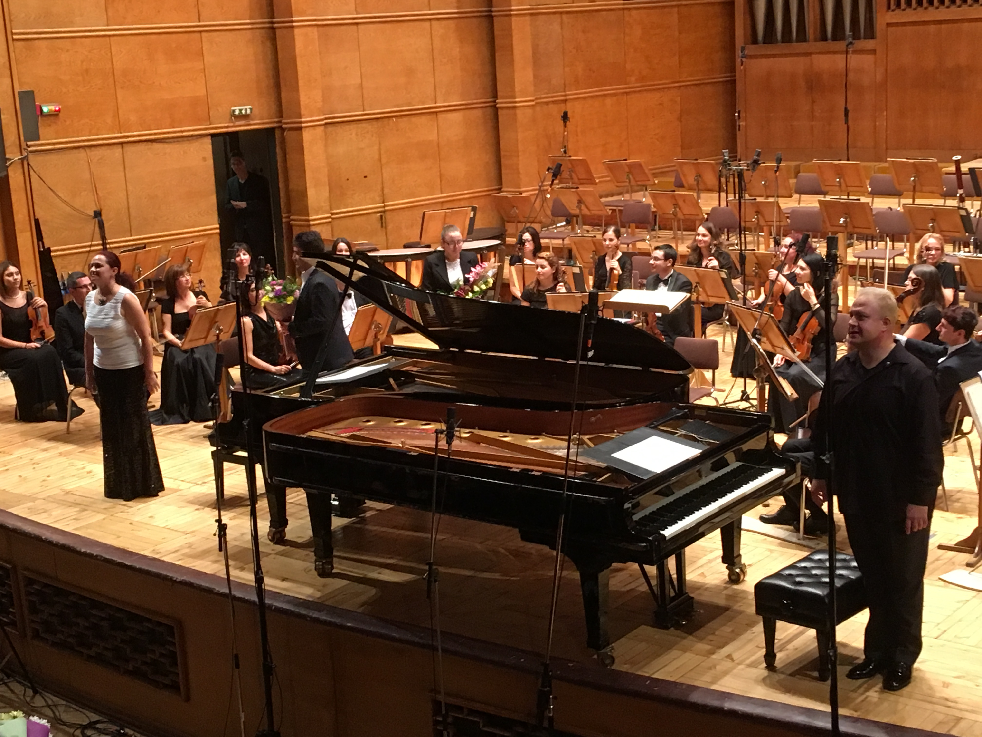 Bulgaria hall, Sofia 80th bday concert